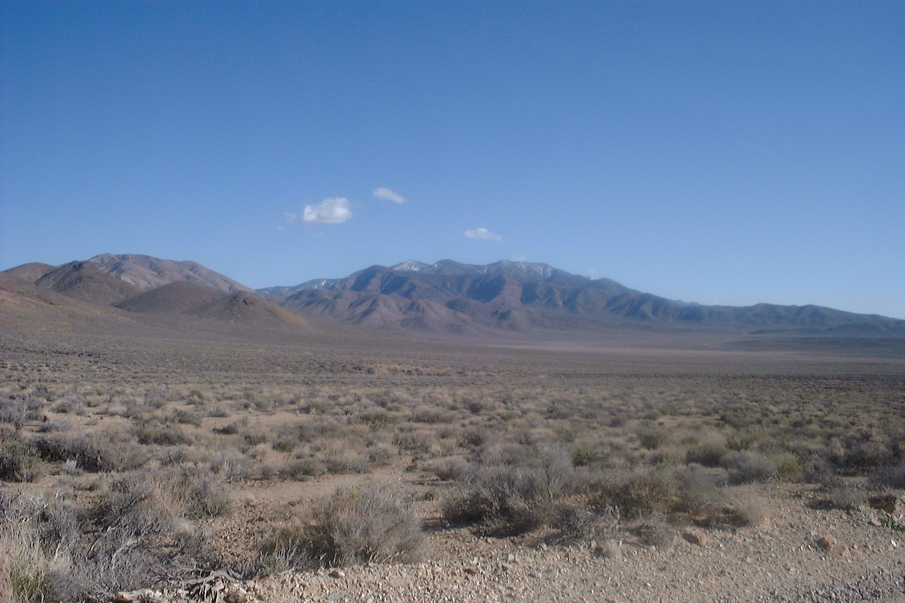 Site of the ghost town of Skidoo, California